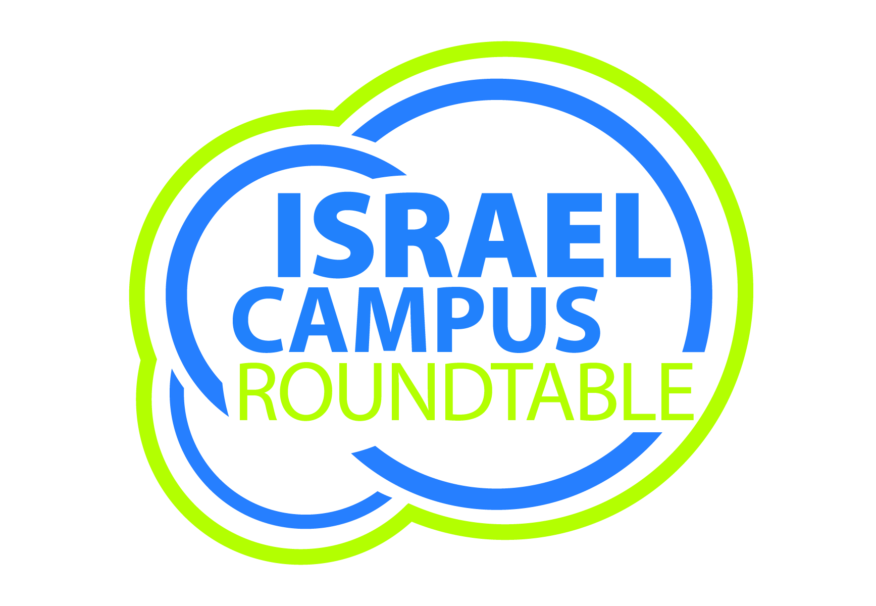 Israel Campus Roundtable Logo